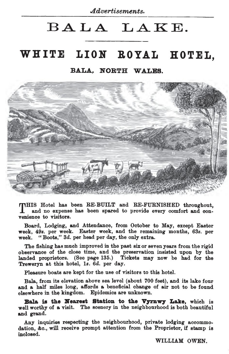 Bala Lake, White Lion Royal Hotel Advertisement from the Anglers Diary, 1893 London